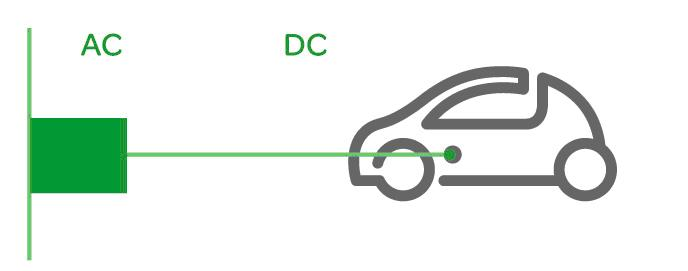 Mode 4 EV